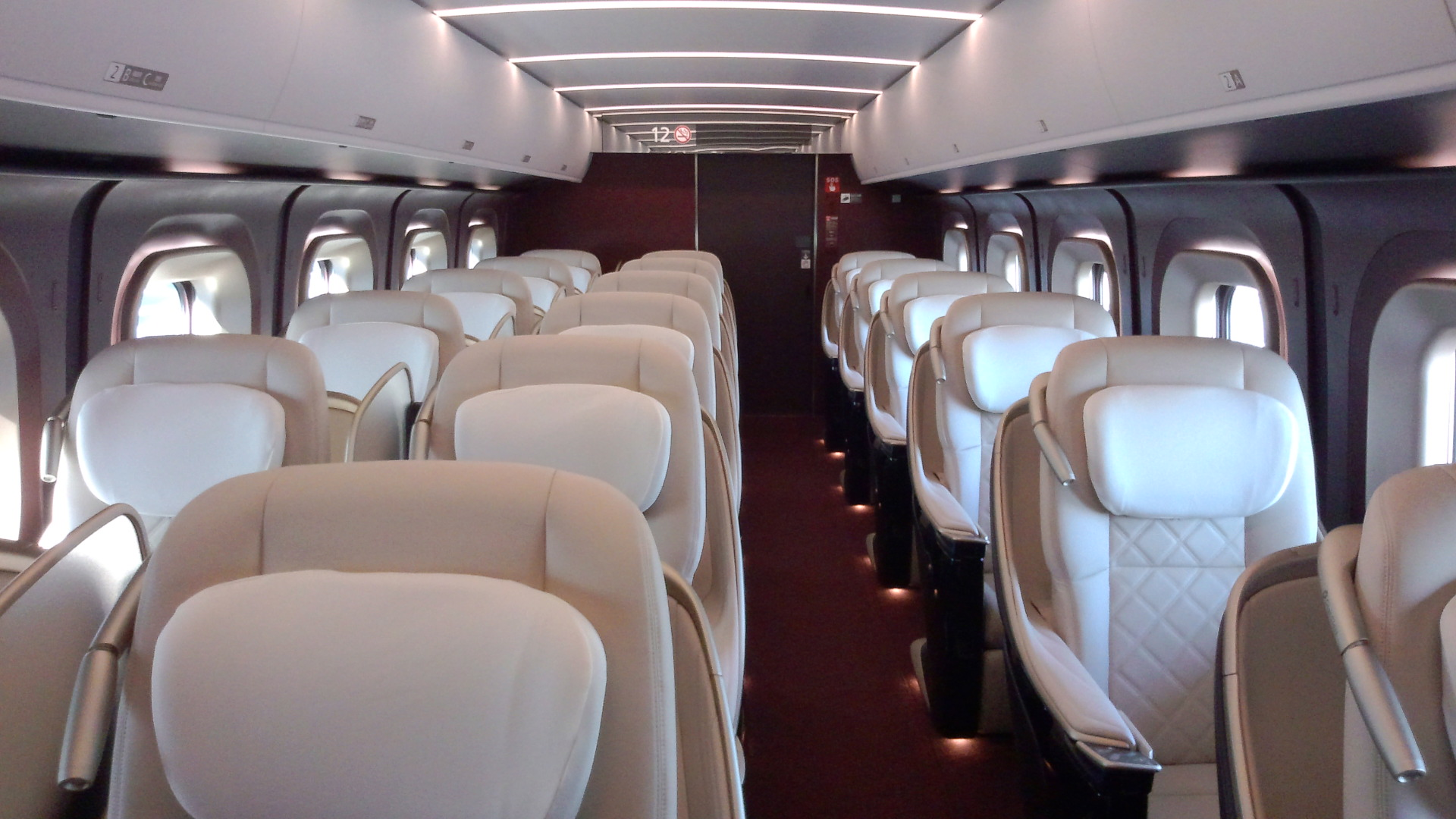 Interior of a JR East E7 series shinkansen Gran Class car (car 12)